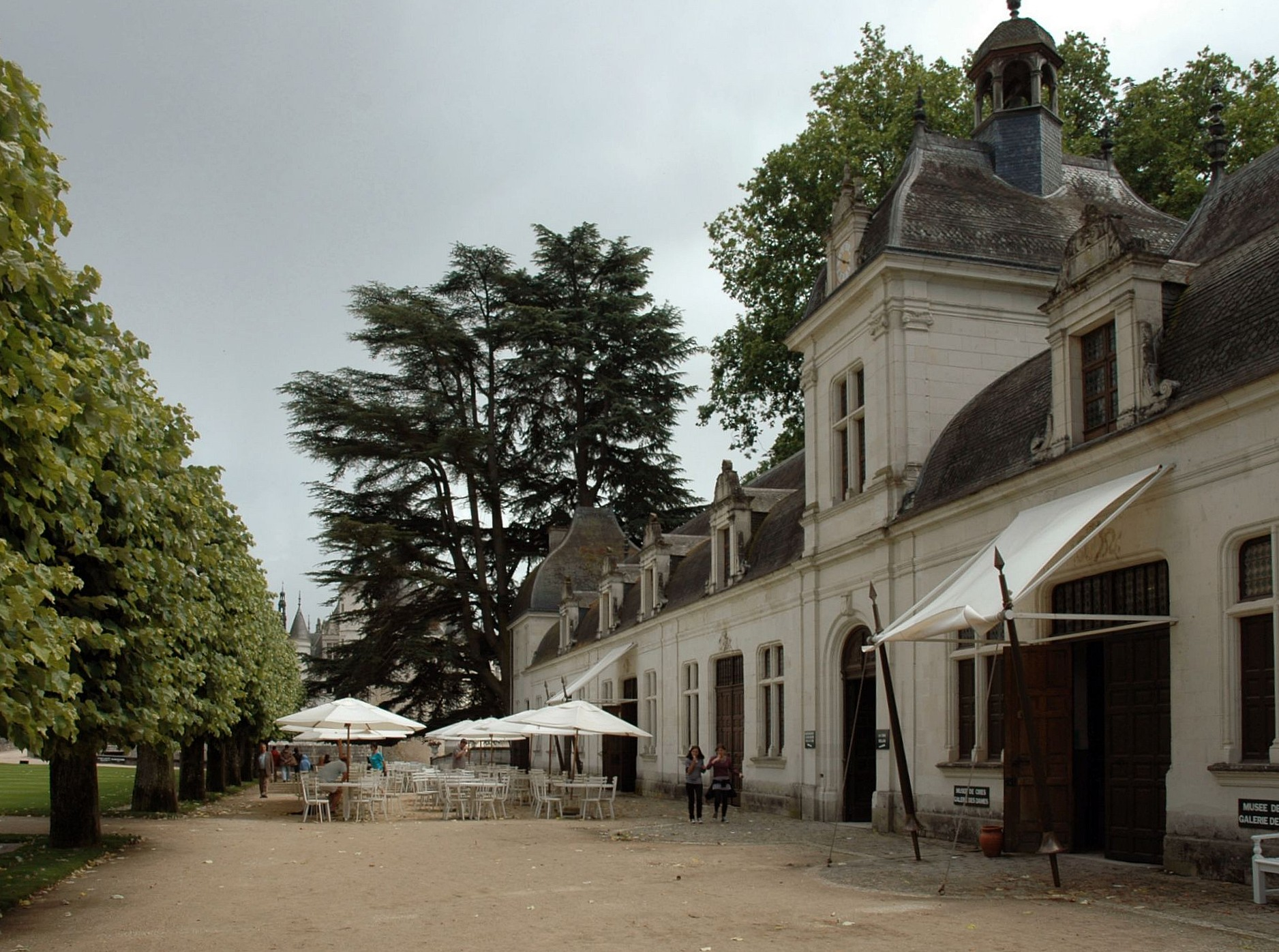 Former outbuildings of the château de Chenonceau, nowadays a wax works